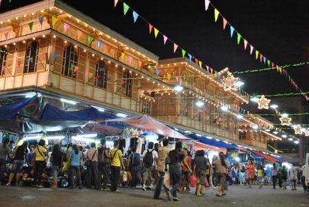 Night Market of Tutuban Center every Monday to Sunday 7 PM to 12 MN